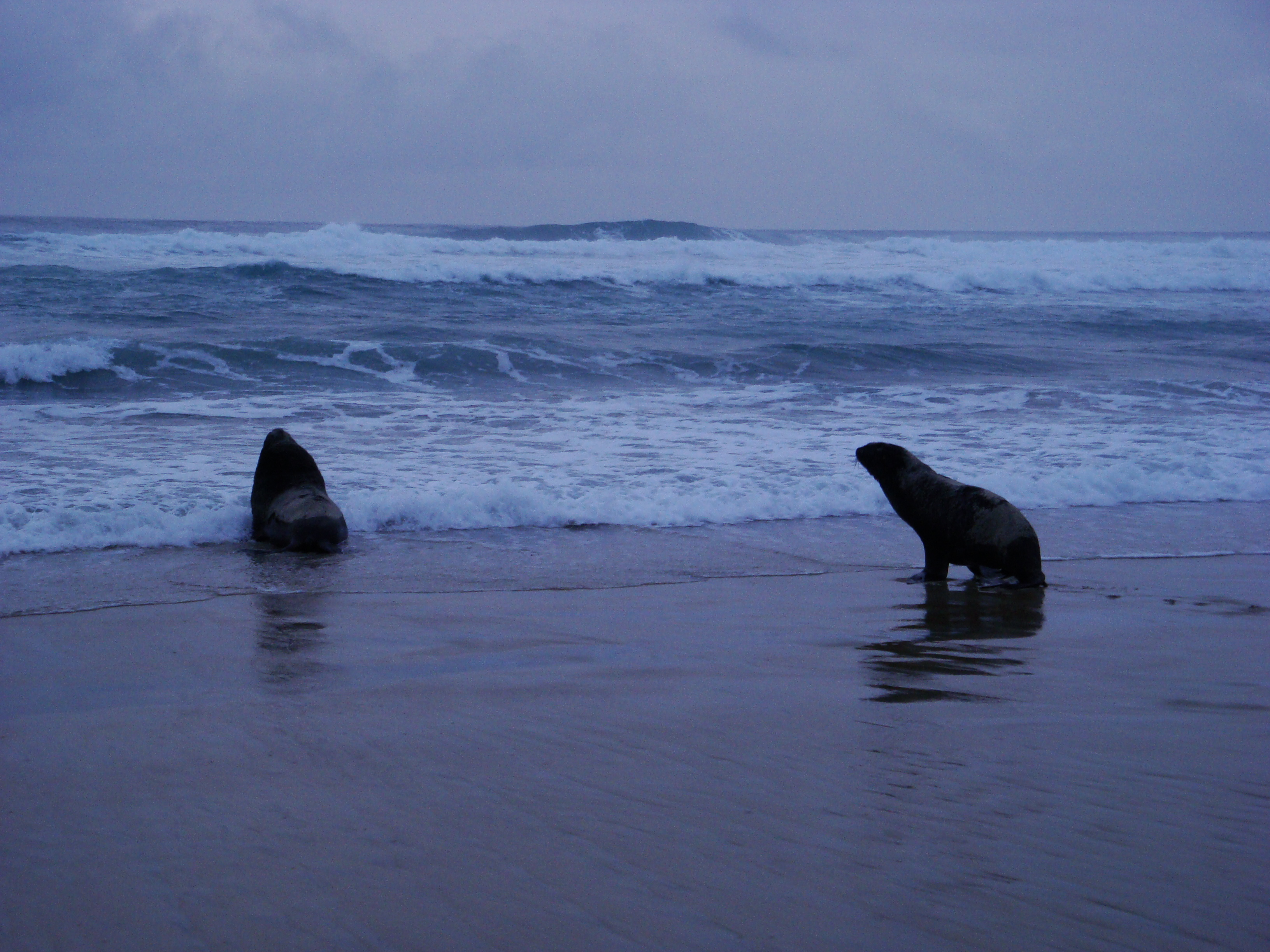 New Zealand Sea Lions (Phocarctos hookeri) in Sandfly Bay.